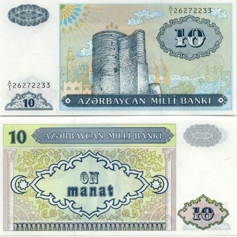 Azerbaijani currency: 10 Manat (1993) featuring Maiden Tower.